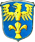 Coat of Arms of Suurhusen